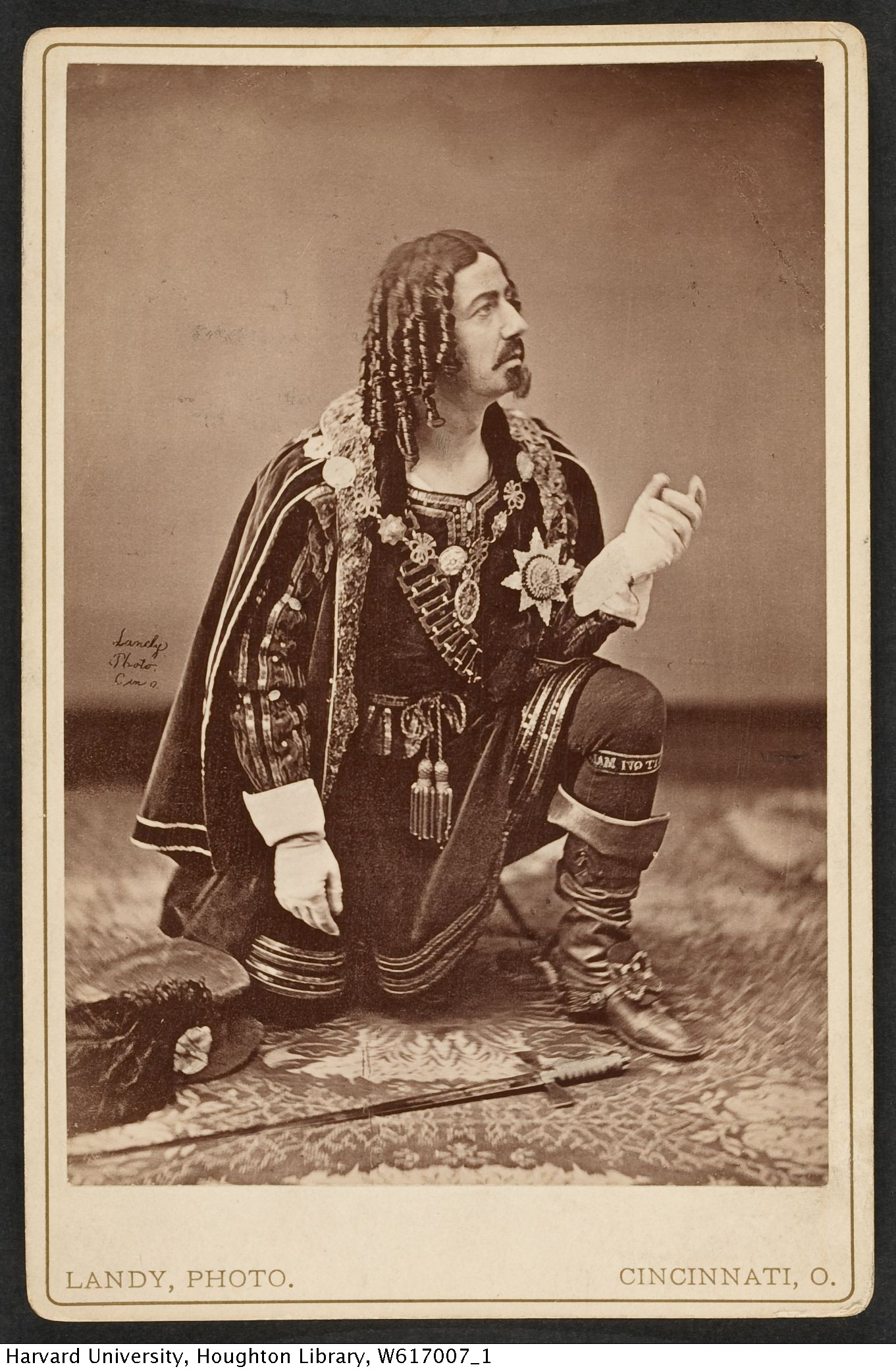 Cabinet card image of Irish stage actor Gustavus Vaughan Brooke (1818-1866), in costume. TCS 1.3675, Harvard Theatre Collection, Harvard University